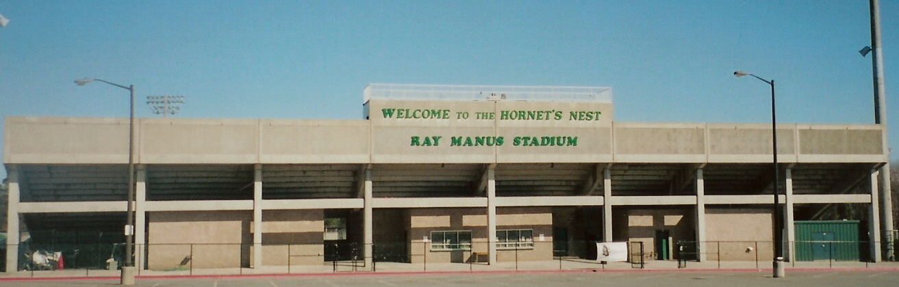 Exterior including entrances and concession stands at Roswell High School's Ray Manus Stadium which is used for football